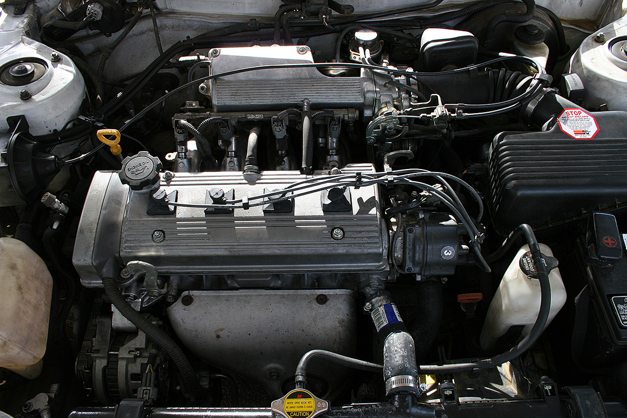 Toyota A engine (4A-FE) from a 1994 Geo Prizm LSi 1.6liter, 16 valve, 4 Cylinder.